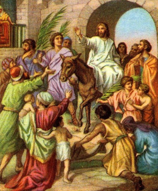 Jesus entering Jerusalem on a donkey